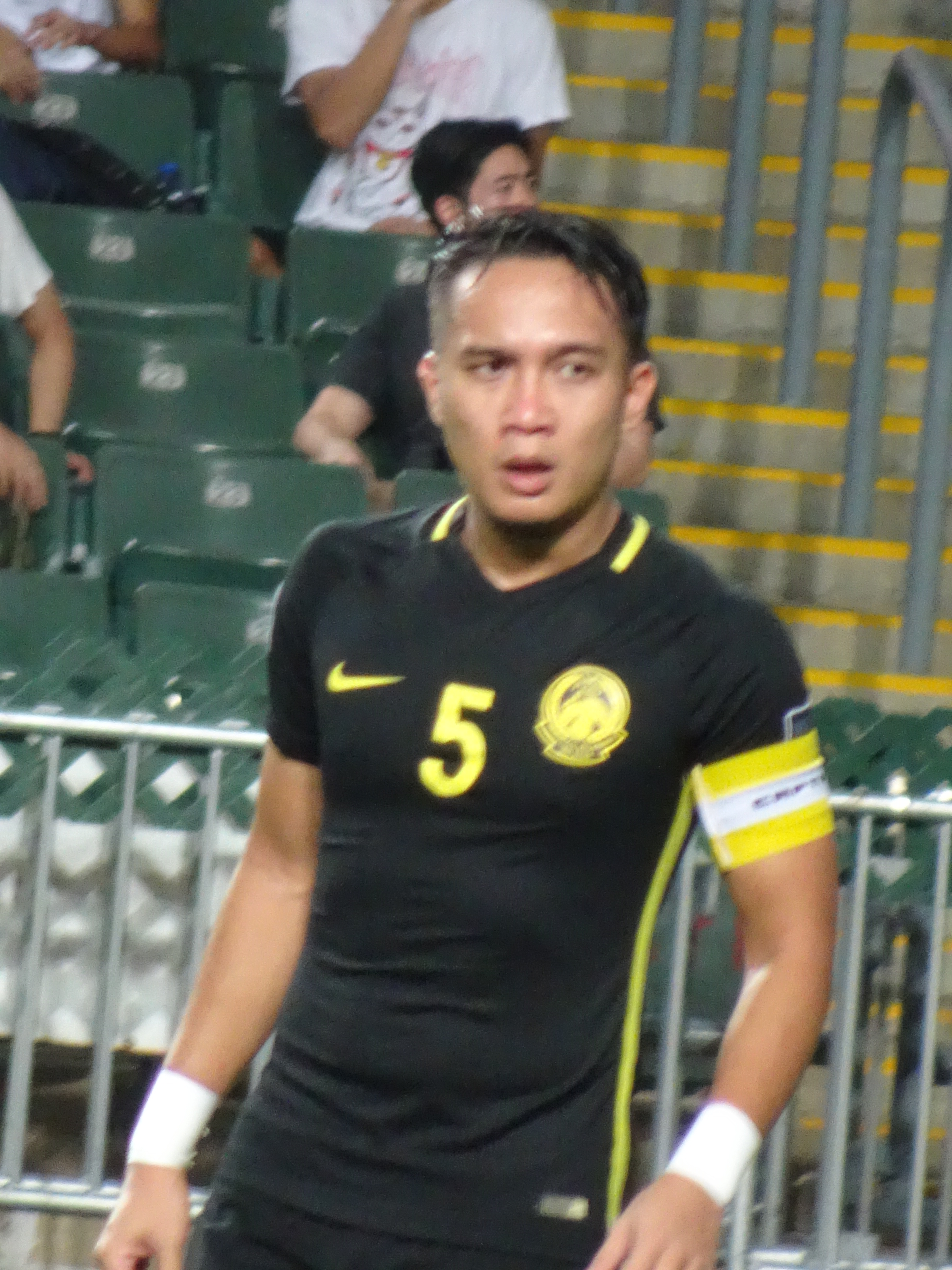 Shahrom Kalam (10 Oct 2017, Asian Cup Qualifier, Hong Kong vs Malaysia, Hong Kong Stadium)